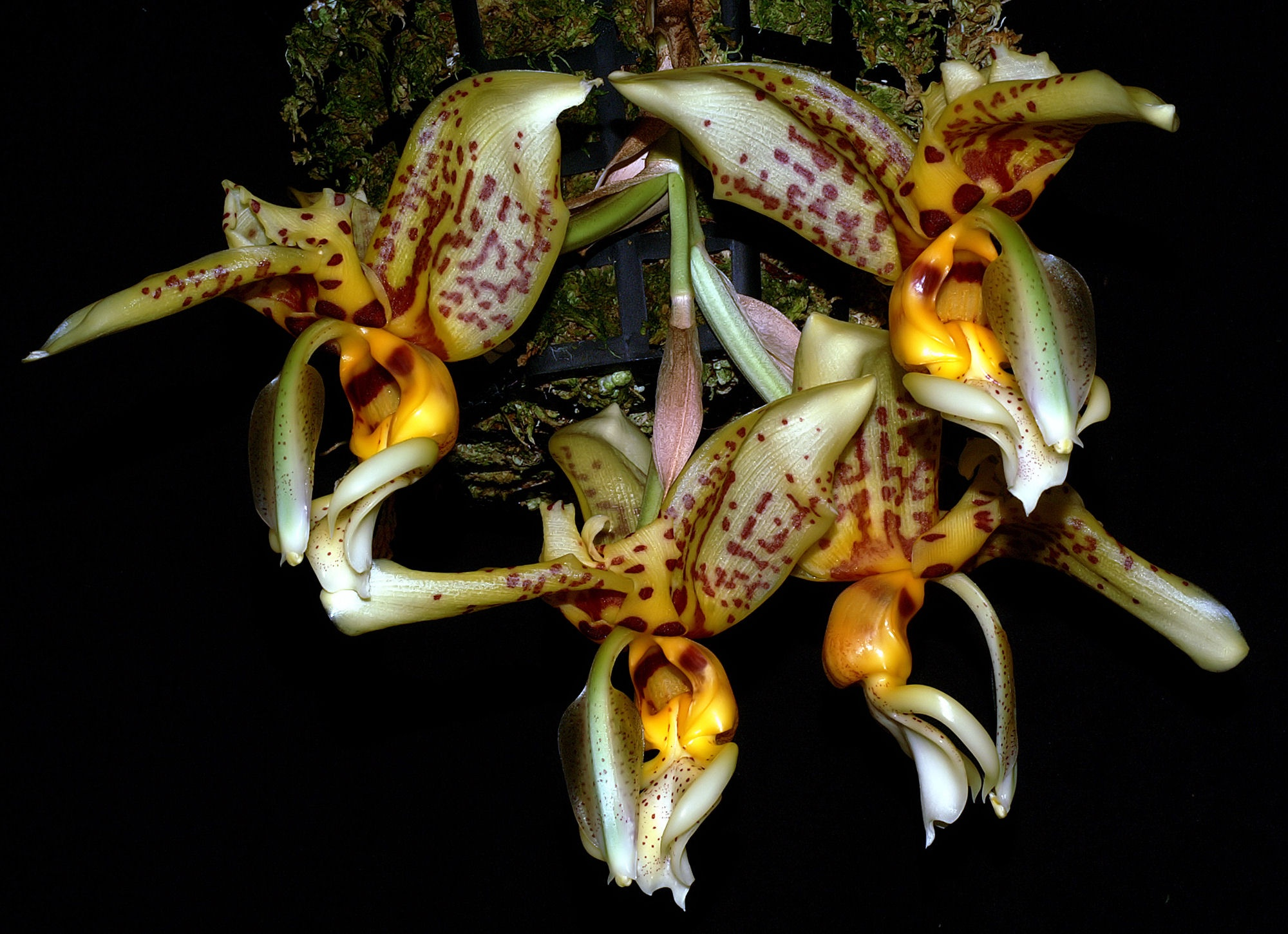 Stanhopea shuttleworthii